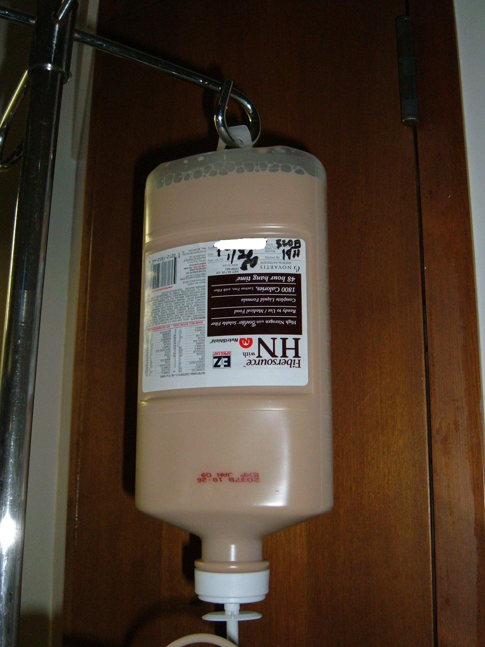 Novartis Fibersource HN with Nutrishield High Nitrogen with Benefiber Soluble Fiber medical food deployed on an IV pole. Has 1,800 calories, is lactose free, and has a 48 hour hang time.